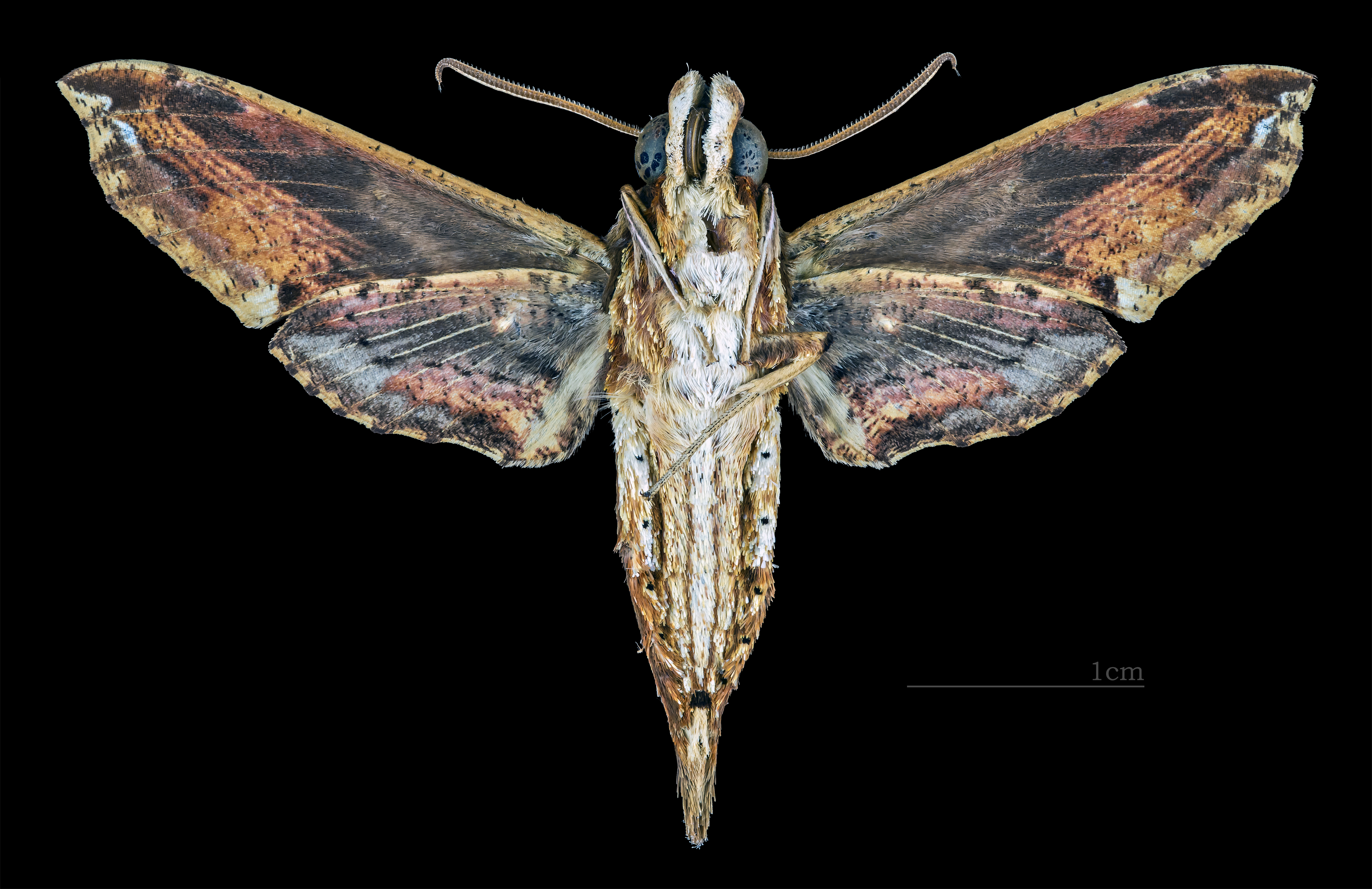 Eupanacra radians - △ Ventral side Collection of the Mathematician Laurent Schwartz